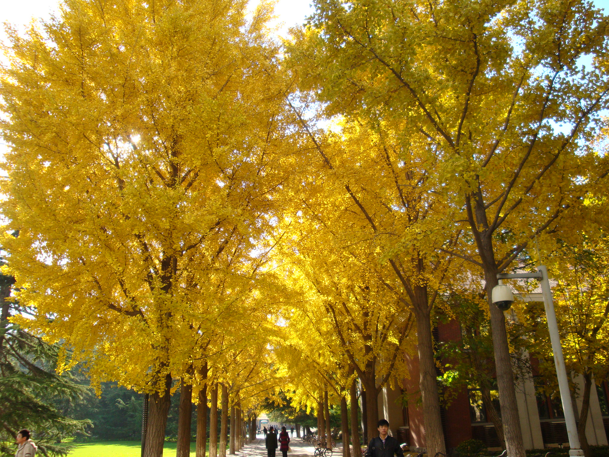 gingko trees in BJTU (beijing jiaotong univ) campus